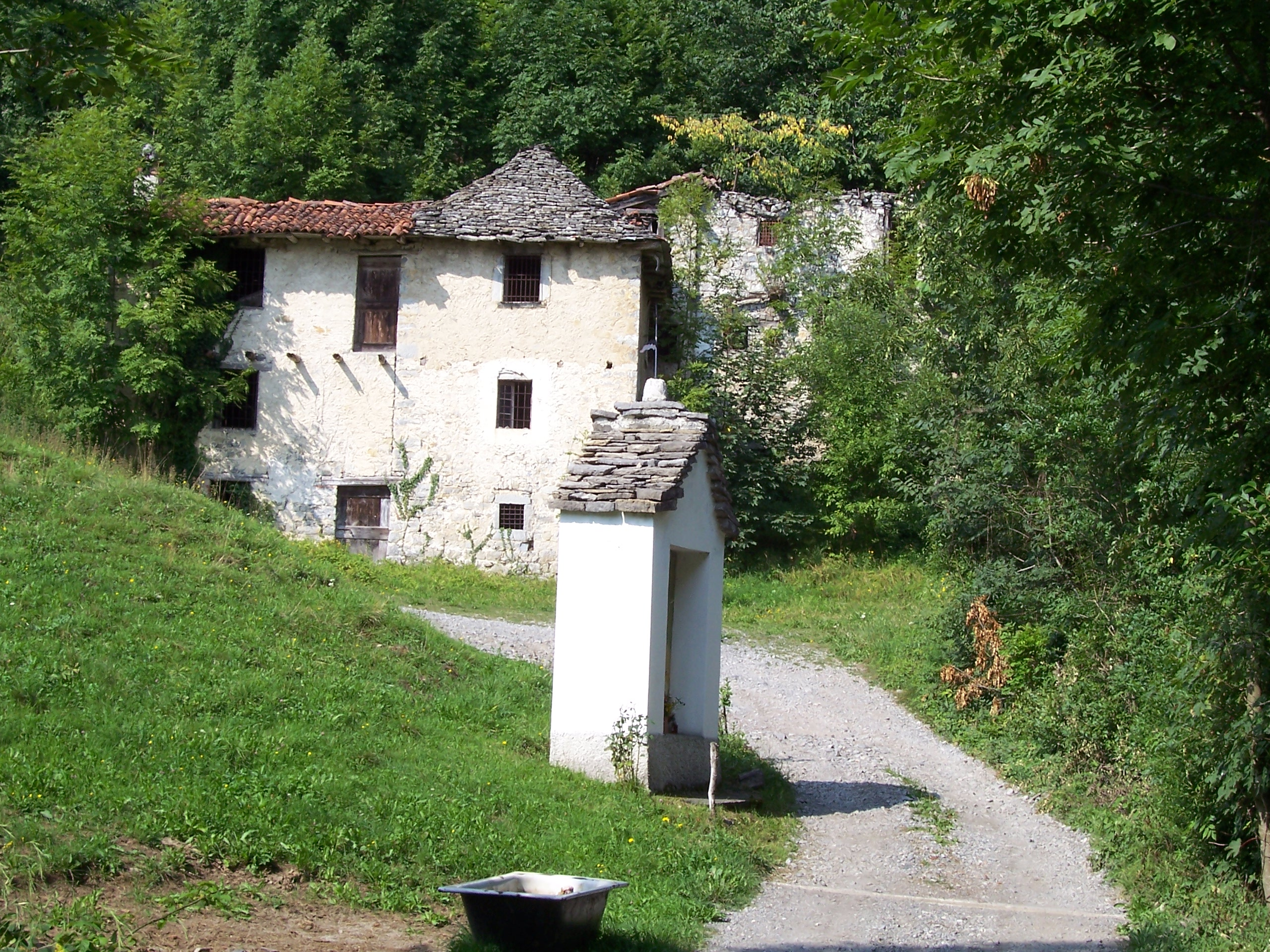 Roncalli, Vedeseta (BG), Lombardy, Italy